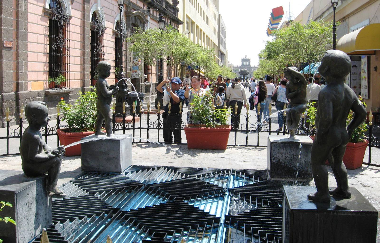 Four Boys Fountain on Morelos Street in downtown Guadalajara Mexico